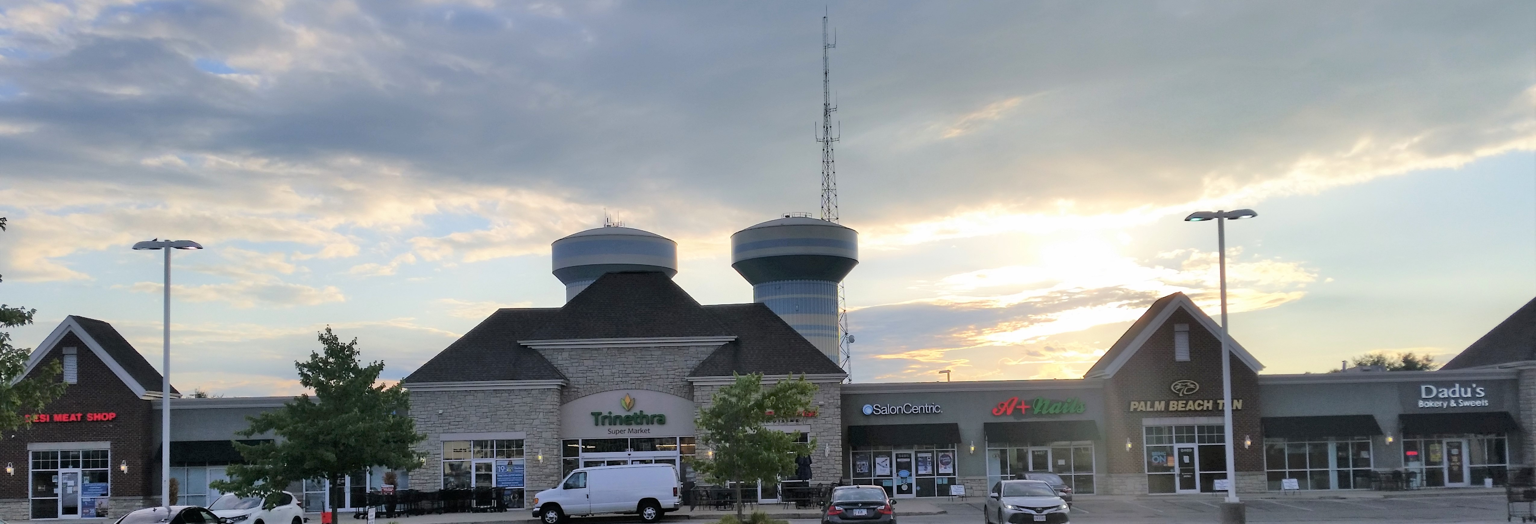 Little India in Polaris area of Columbus, Ohio, USA